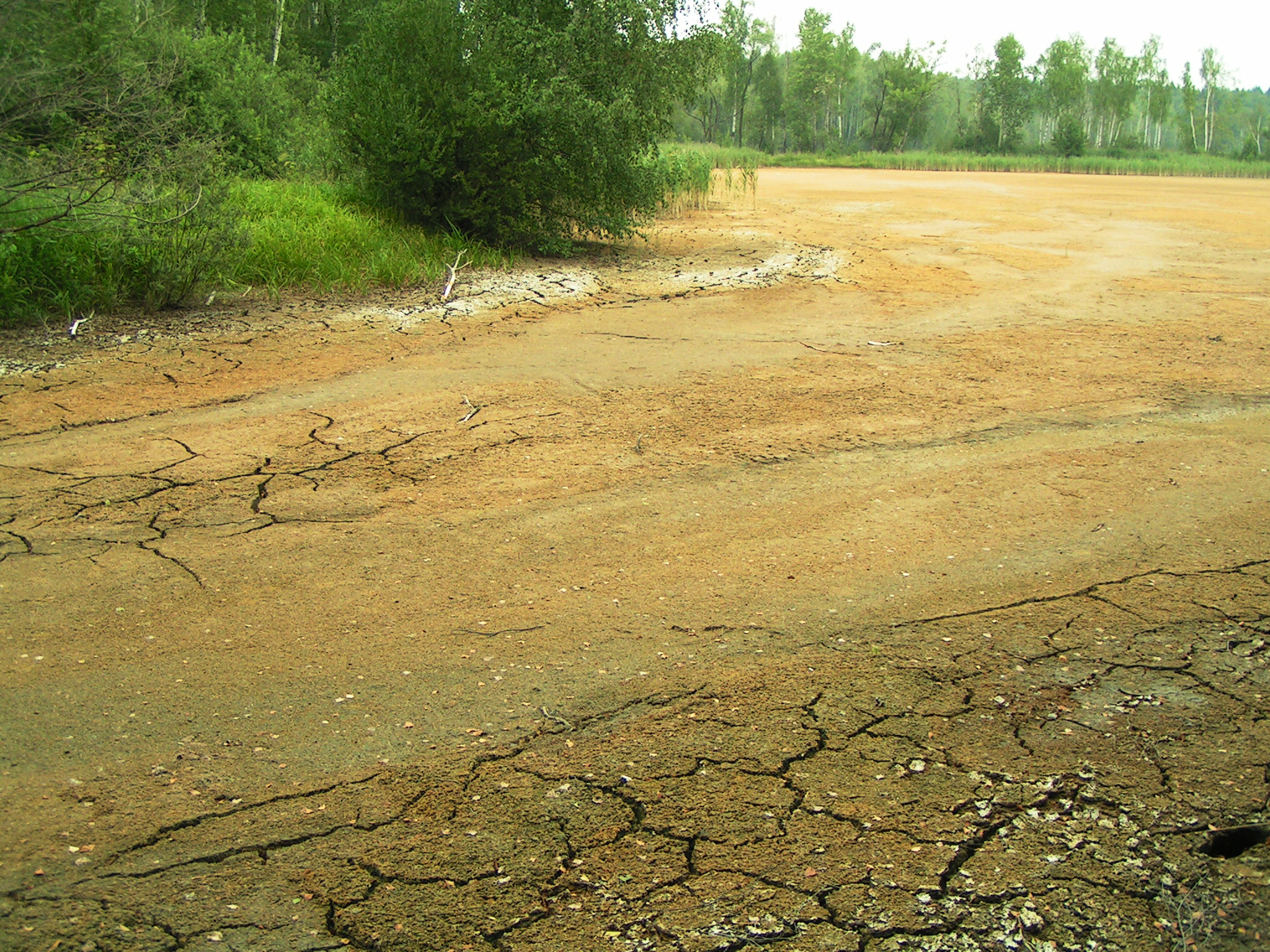 Mazurinskoe lake in Moskovskaya oblast, Balashikha, Russia. Beautiful lake and resort in the past, now it is destroyed due to improper wastewater treatment. Source of river Gorenka (2010).